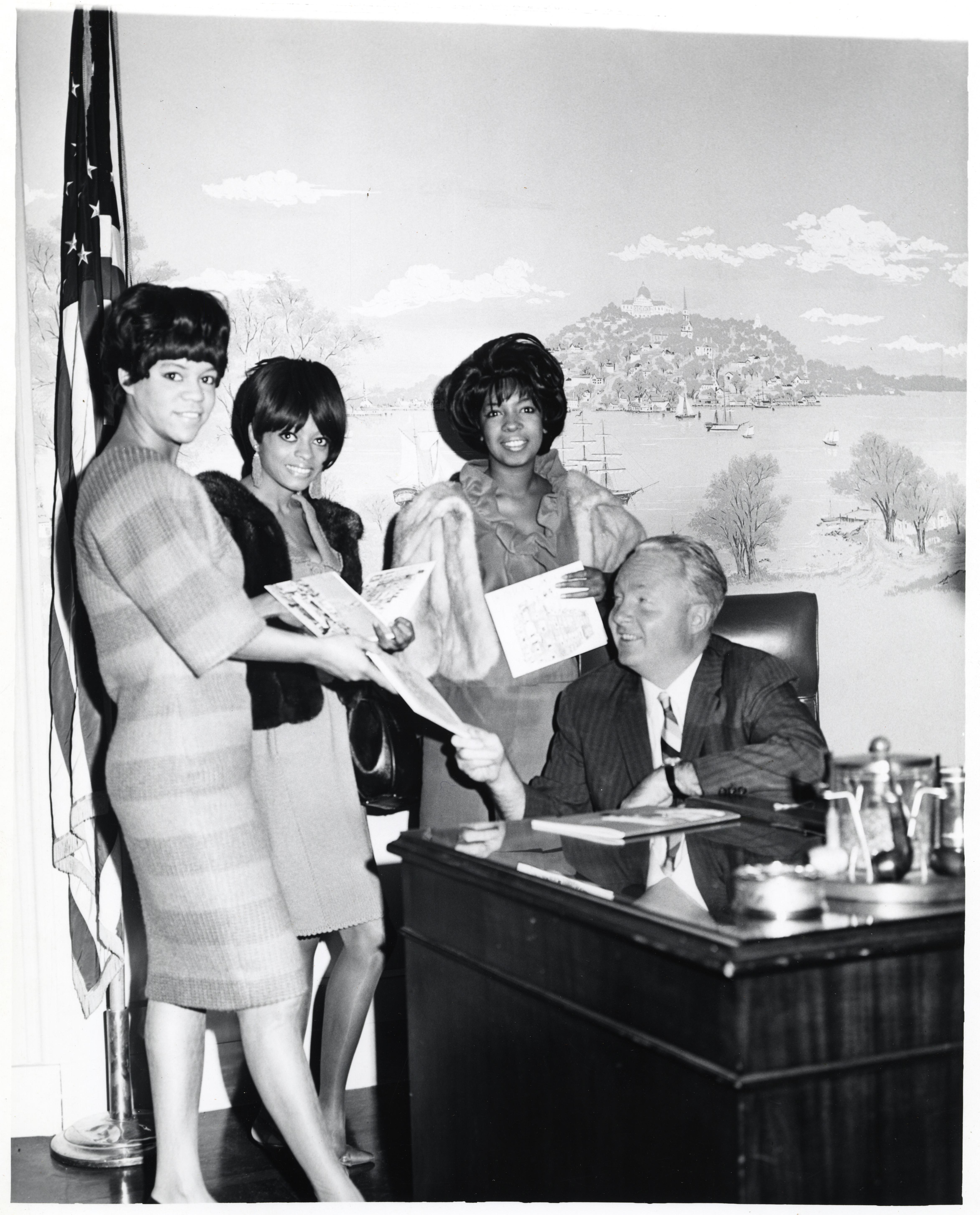 Title: Mayor John F. Collins and the Supremes (Florence Ballard, Diana Ross, and Mary Wilson) Creator: City of Boston Date: circa 1960-1968 Source: Mayor John F. Collins records, Collection #0244.001 File name: 244001_0217 Rights: Copyright City of Boston Citation: Mayor John F. Collins records, Collection #0244.001, City of Boston Archives, Boston